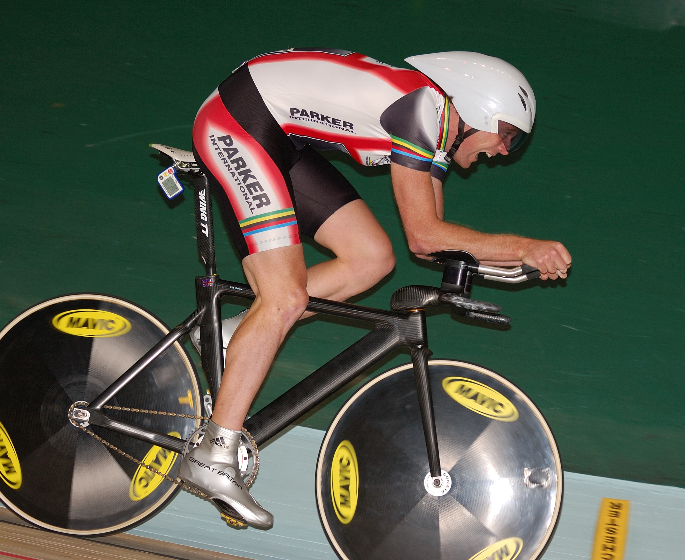 UK Track Cycling National Championships 2007 - Manchester Velodrome 5th Rob Hayles 4:31.536 shot looking down from the south curve